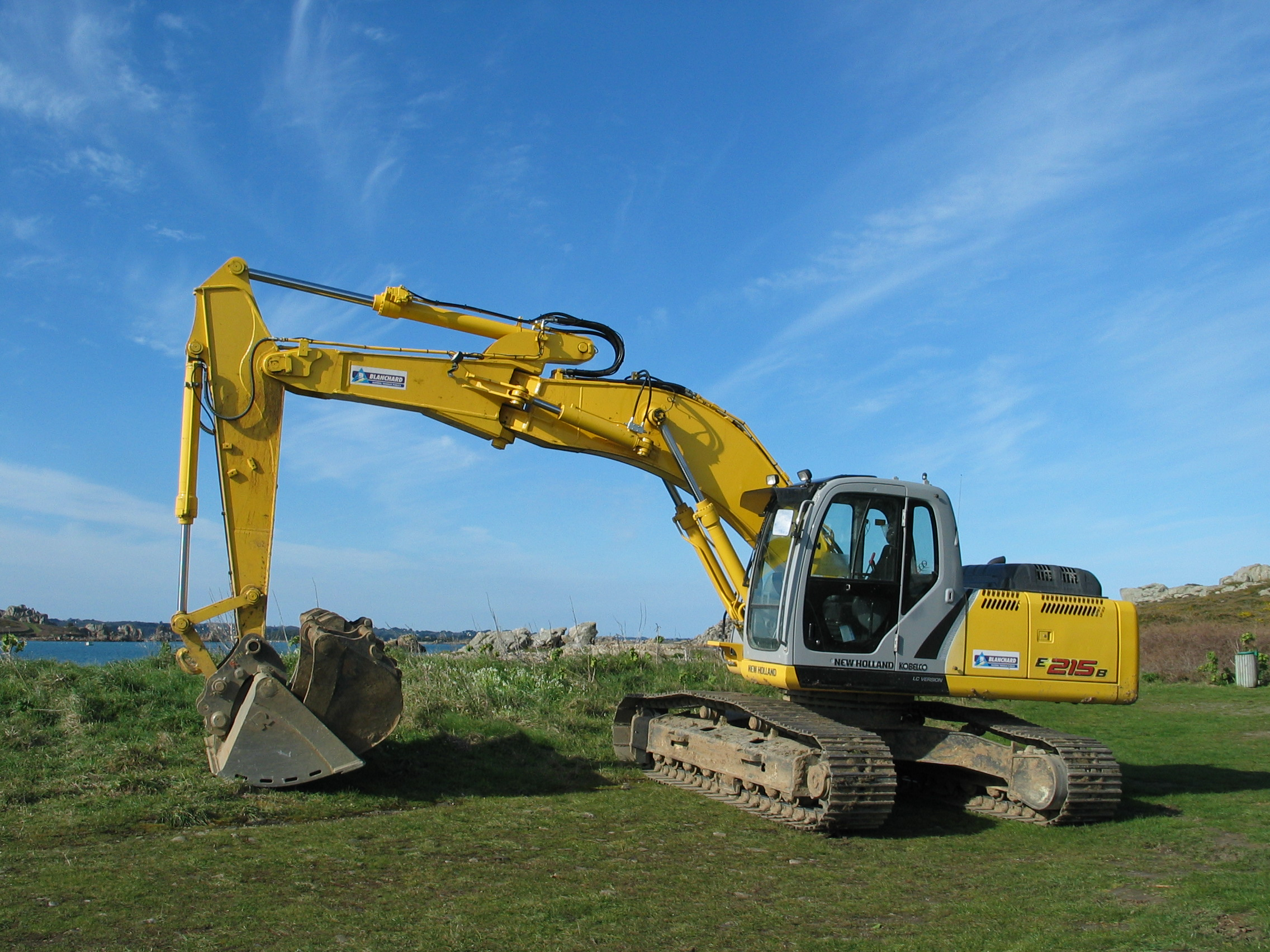 An excavator in Brittany, France